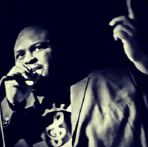 Self Jupiter performing The Kleenrz set at the blue cafe, Long Beach, CA 2012 Depicted person: Self Jupiter – American rapper